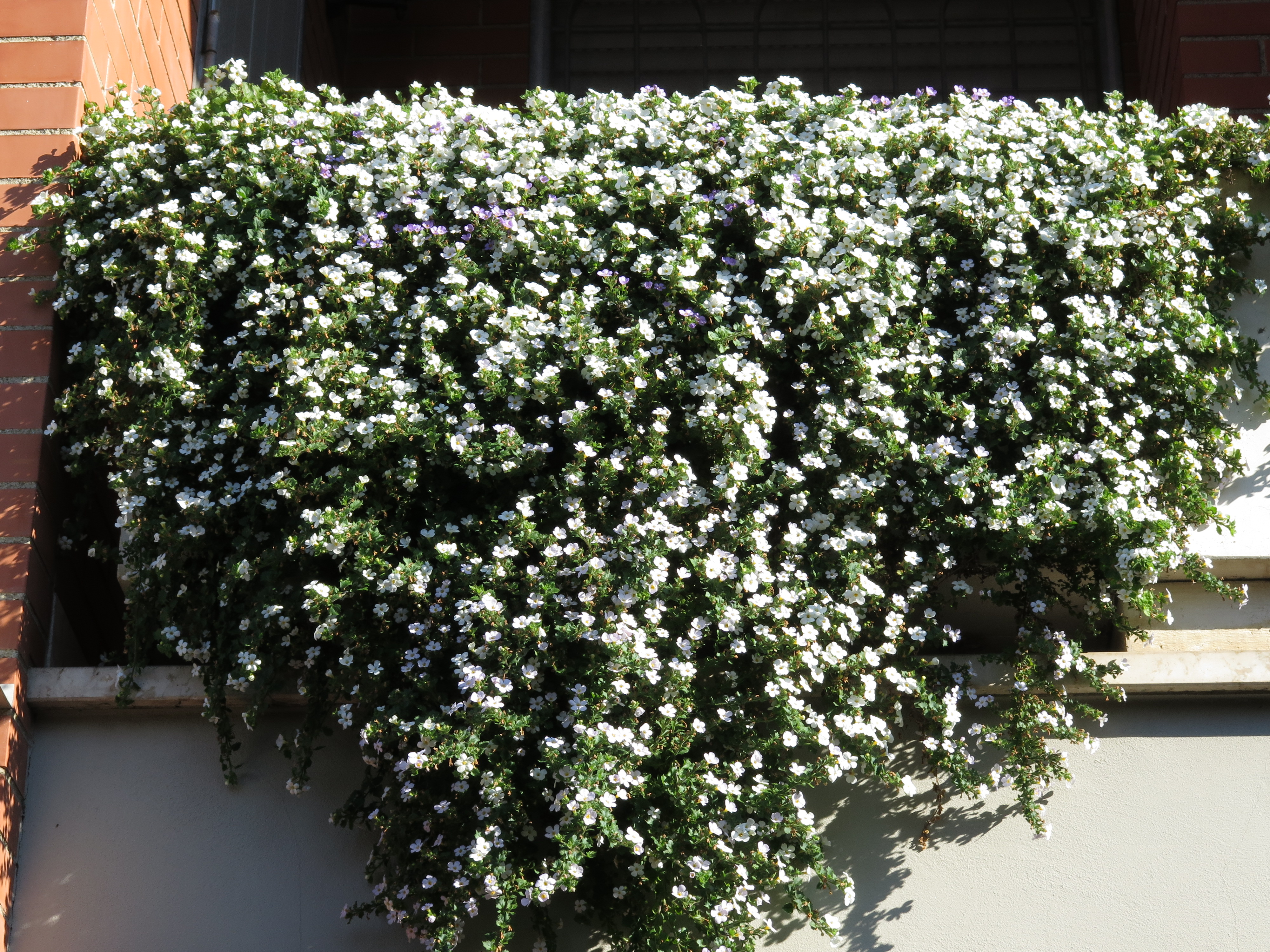 Chaenostoma cordatum in january in Rome